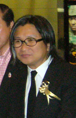 Director Peter Chan at the preview of the film The Warlords at SF World Cinema, CentralWorld, Bangkok.